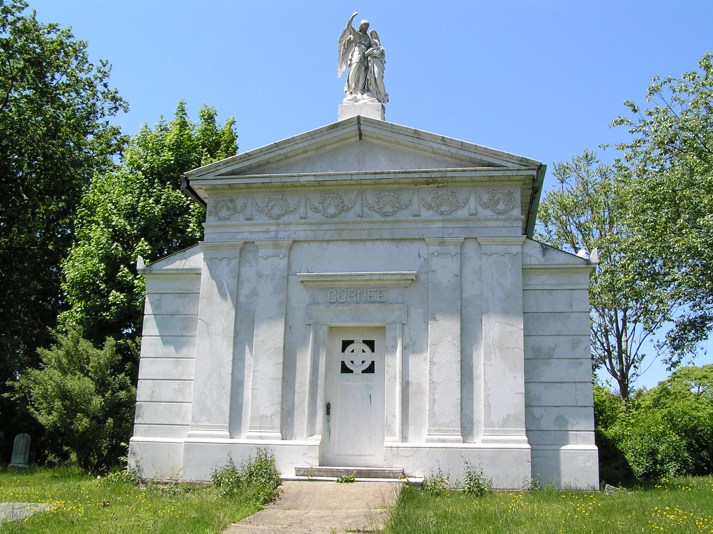 The mausoleum of Walter Gurnee in Sleepy Hollow Cemetery